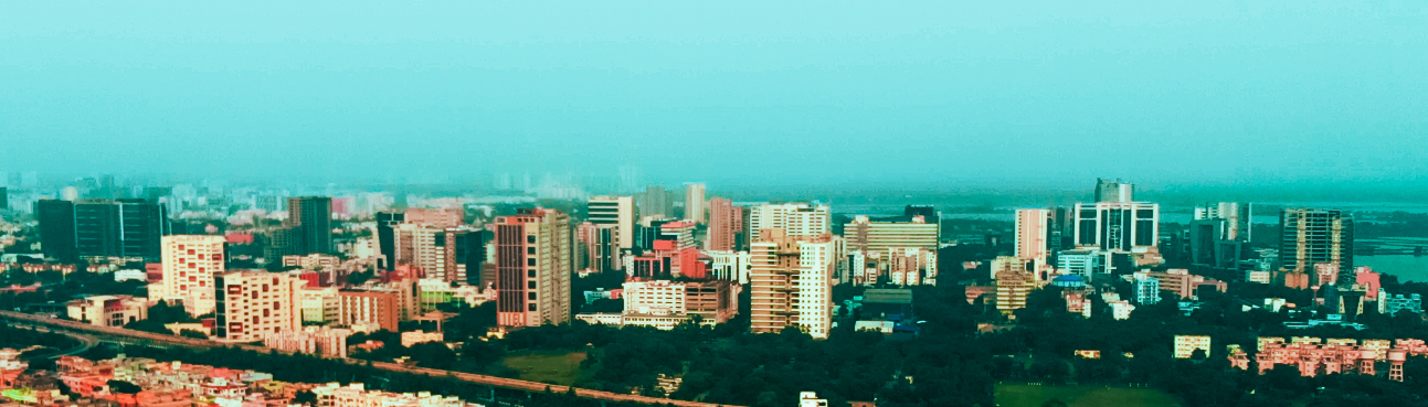 Aerial View of Sector V, Saltlake, also known as the IT Hub of Kolkata